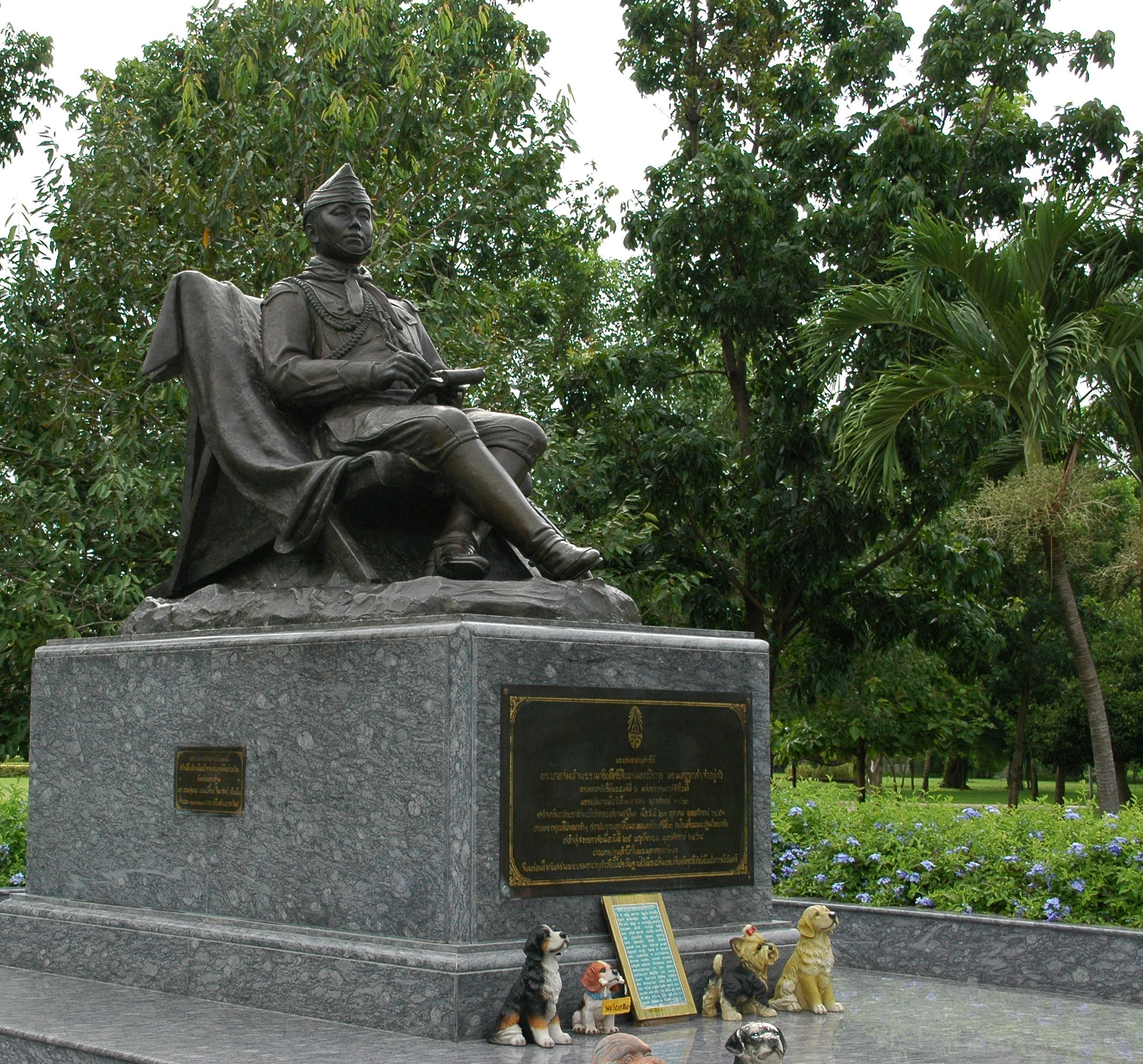 Rama VI., Sanam Chan, Nakhon Pathom, Thailand